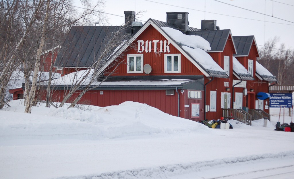 Björkliden railway station in Kiruna, Sweden, along the Malmbanan.